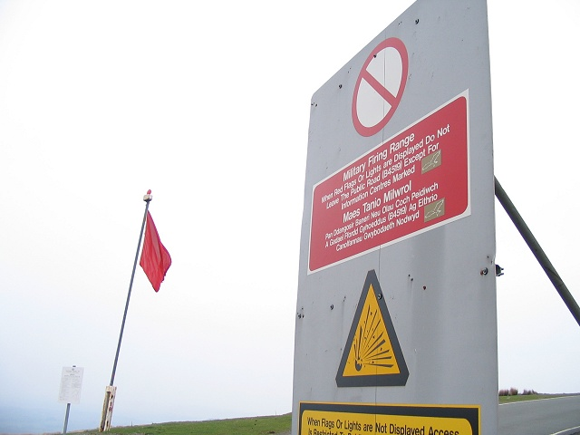 Danger sign above Cwm Graig Ddu As you drive southwest onto the road across the Sennybridge artillery range you will see this sign by the cattle grid and lookout point. On days when the red flag is on display you must stick to the road and not go walking around on the mountain.